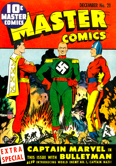 Captain Marvel and Bulletman join forces to take down Captain Nazi, Terror of the Age. This was the beginning of a three-issue crossover which introduced Captain Marvel Jr.